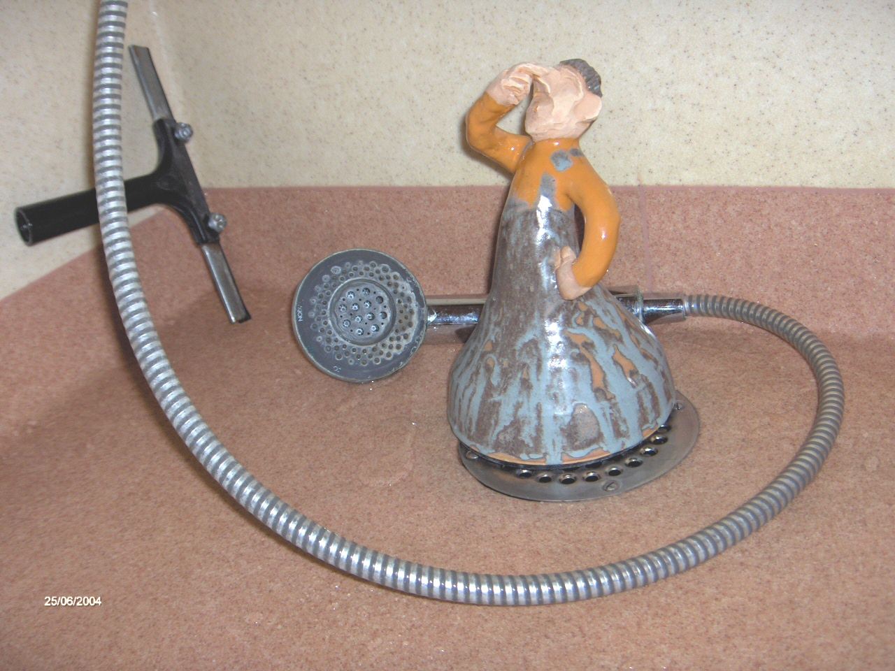 "Los Stinkos"